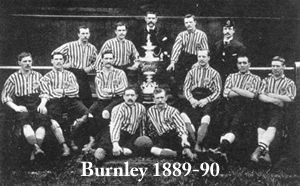 English Burnley F.C. team in 1890. Image found on the Historical Kits website and in The Clarets Chronicles (ISBN 978-0-9557468-0-2). Both give no details of the author's and photographer's identity, so it must be presumed to be unknown. This, and the age of the image mean it is in the PD per the template shown.